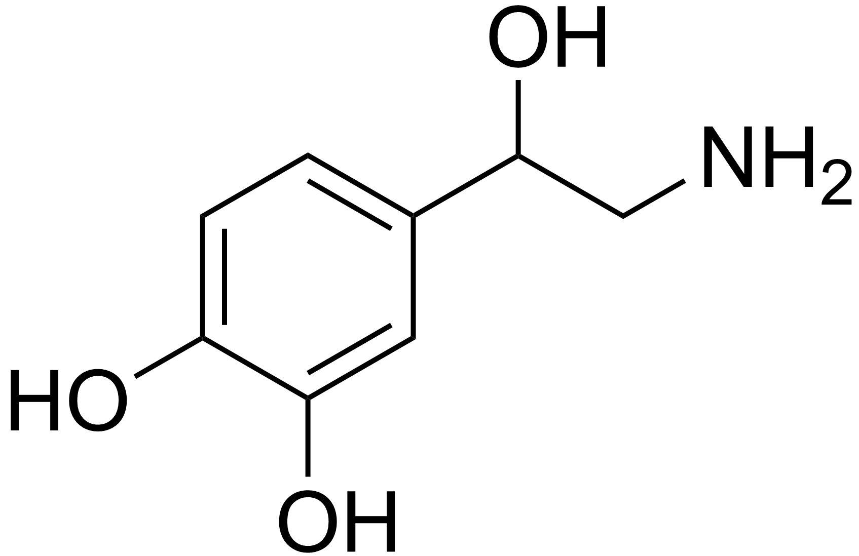 Chemical structure of norepinephrine created with ChemDraw.